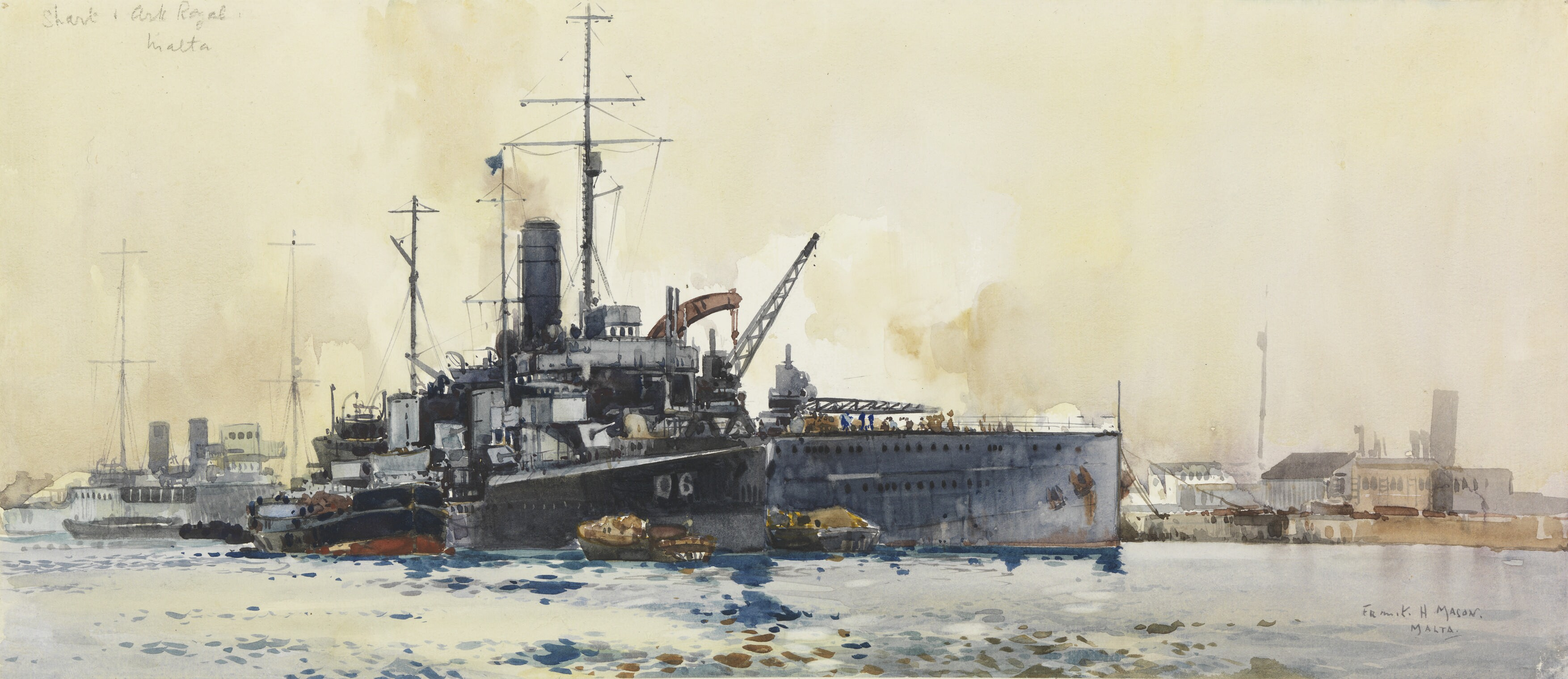 HMS Shark and HMS Ark Royal at Malta image: a view of two large warships moored together, with only the bow and forward section of the aircraft carrier HMS Ark Royal visible, with a tender and supply boats moored alongside. Another vessel and dock installations are in the background.